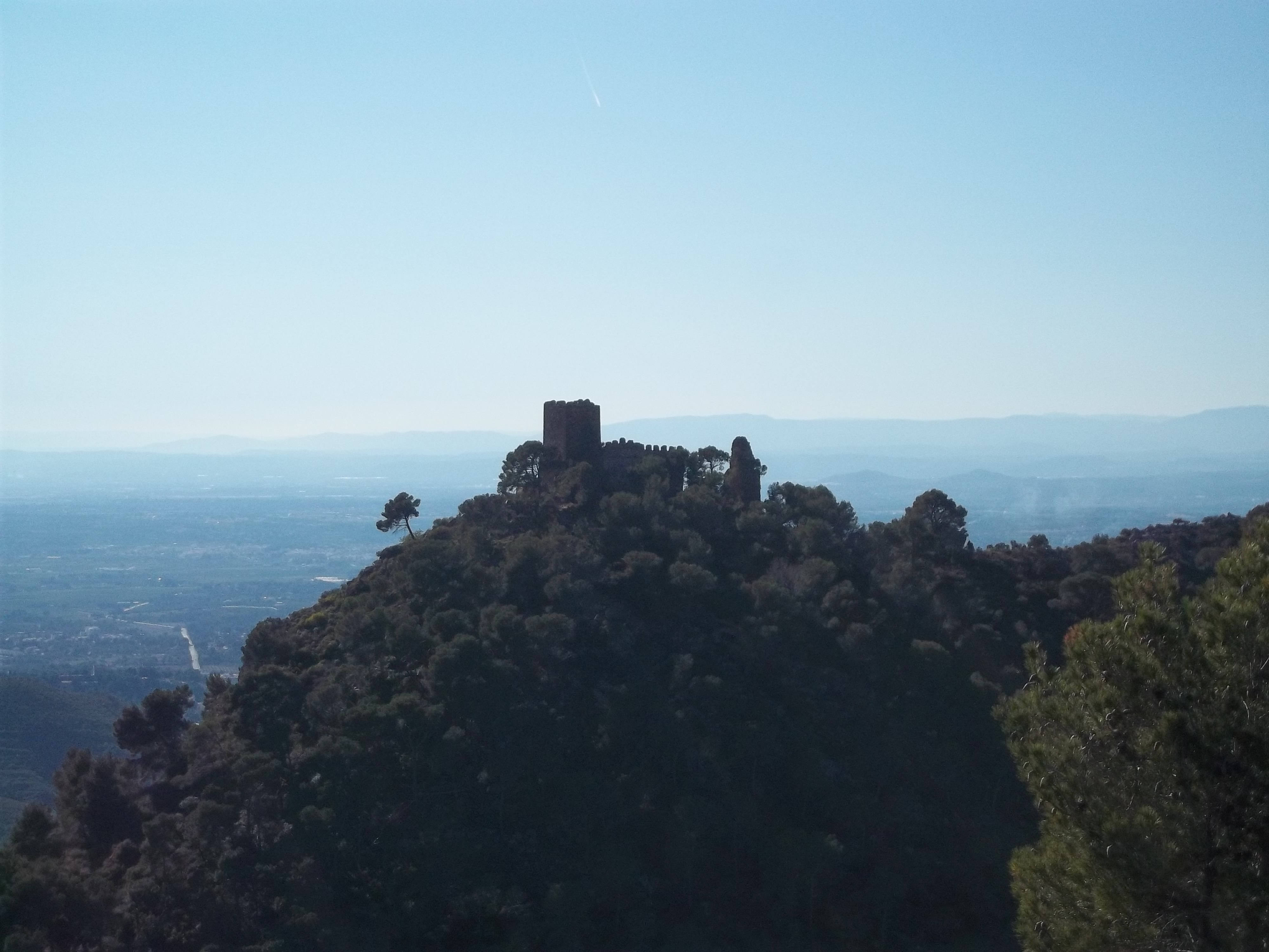 The castle of Serra (Valencian Community).